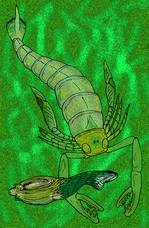 The freshwater eurypterid Slimonia acuminata pursuing the primitive heterostracan Ulutitaspis truncata From the Silurian (C) Stanton F. Fink